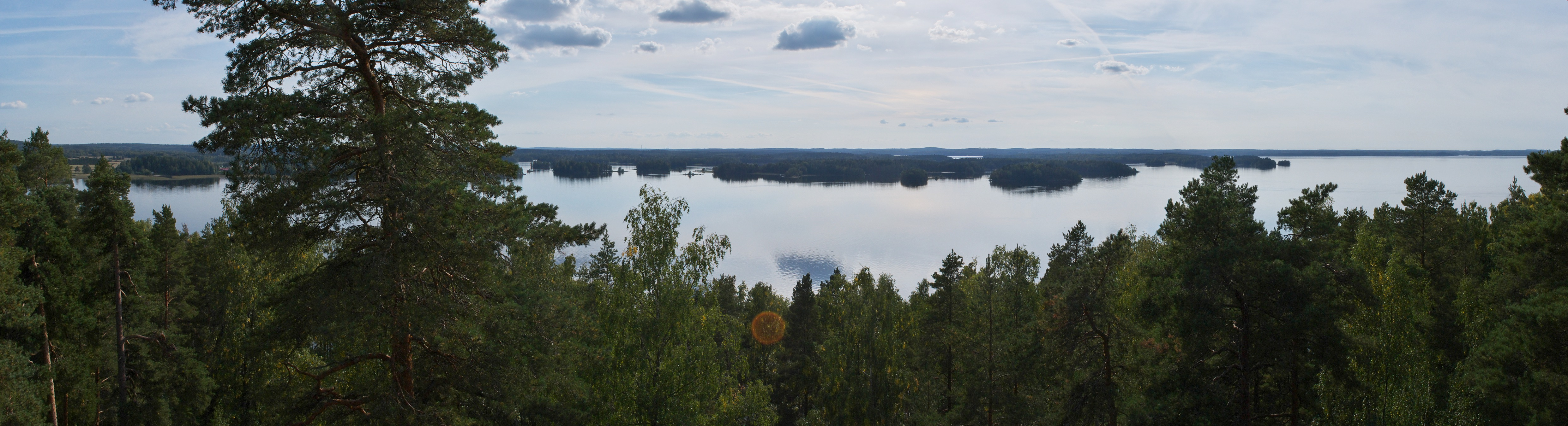 Roine lake seen from from Vehoniemi observation tower in Kangasala